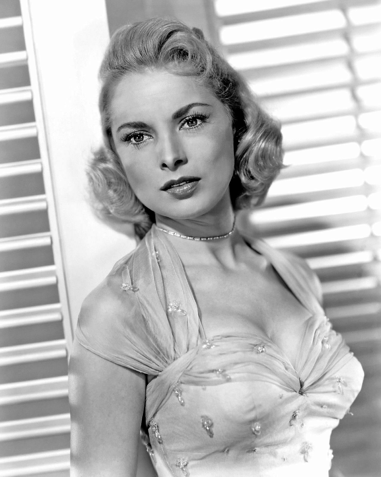 Publicity Photo of American actress Janet Leigh